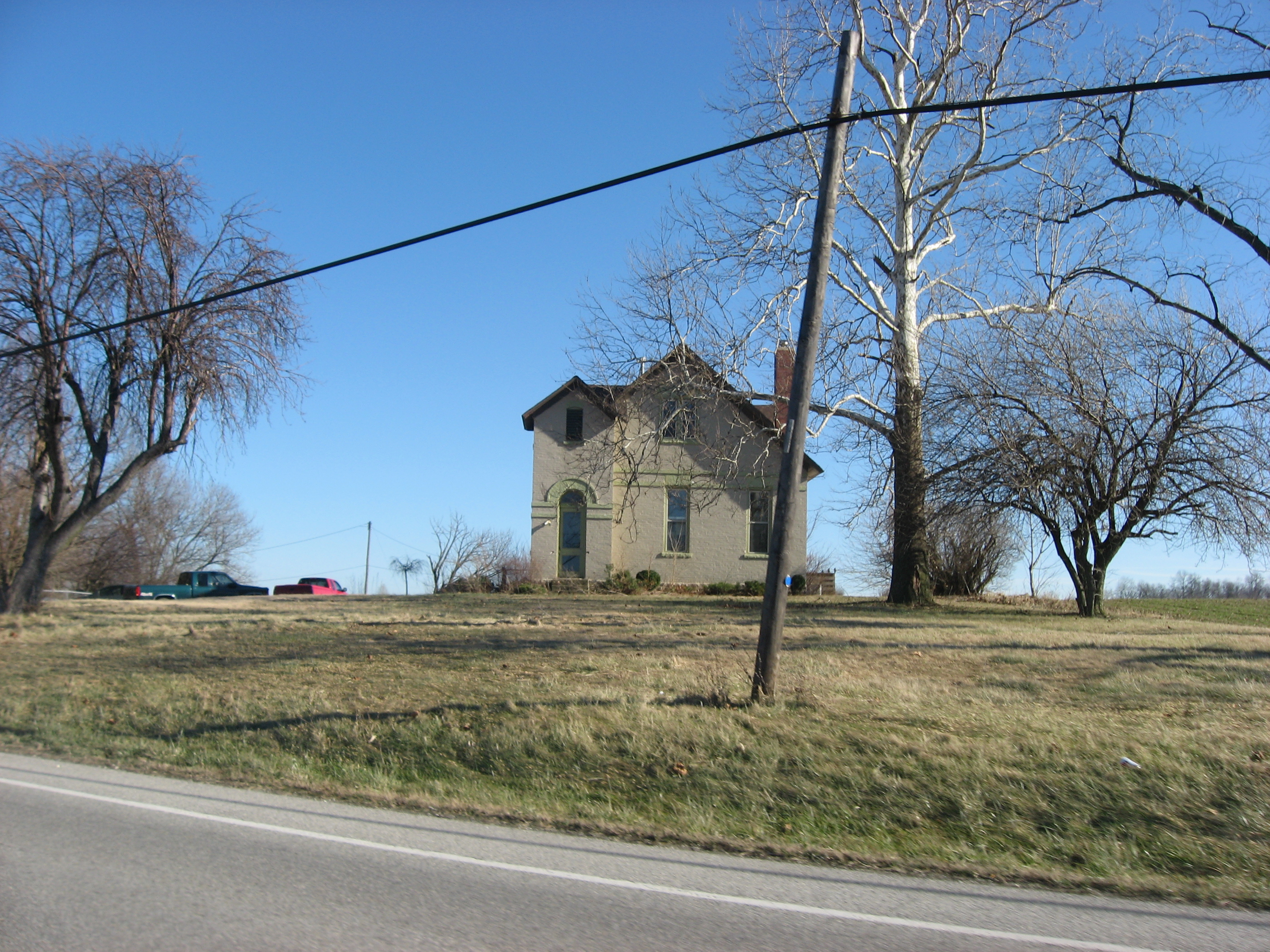 Distant view of Hamilton Township Schoolhouse No. 4, located on the eastern side of State Road 67 just south of County Road 450N, northeast of Muncie in Hamilton Township, Delaware County, Indiana, United States. Built in 1897 and very soon converted into a house, it is listed on the National Register of Historic Places.